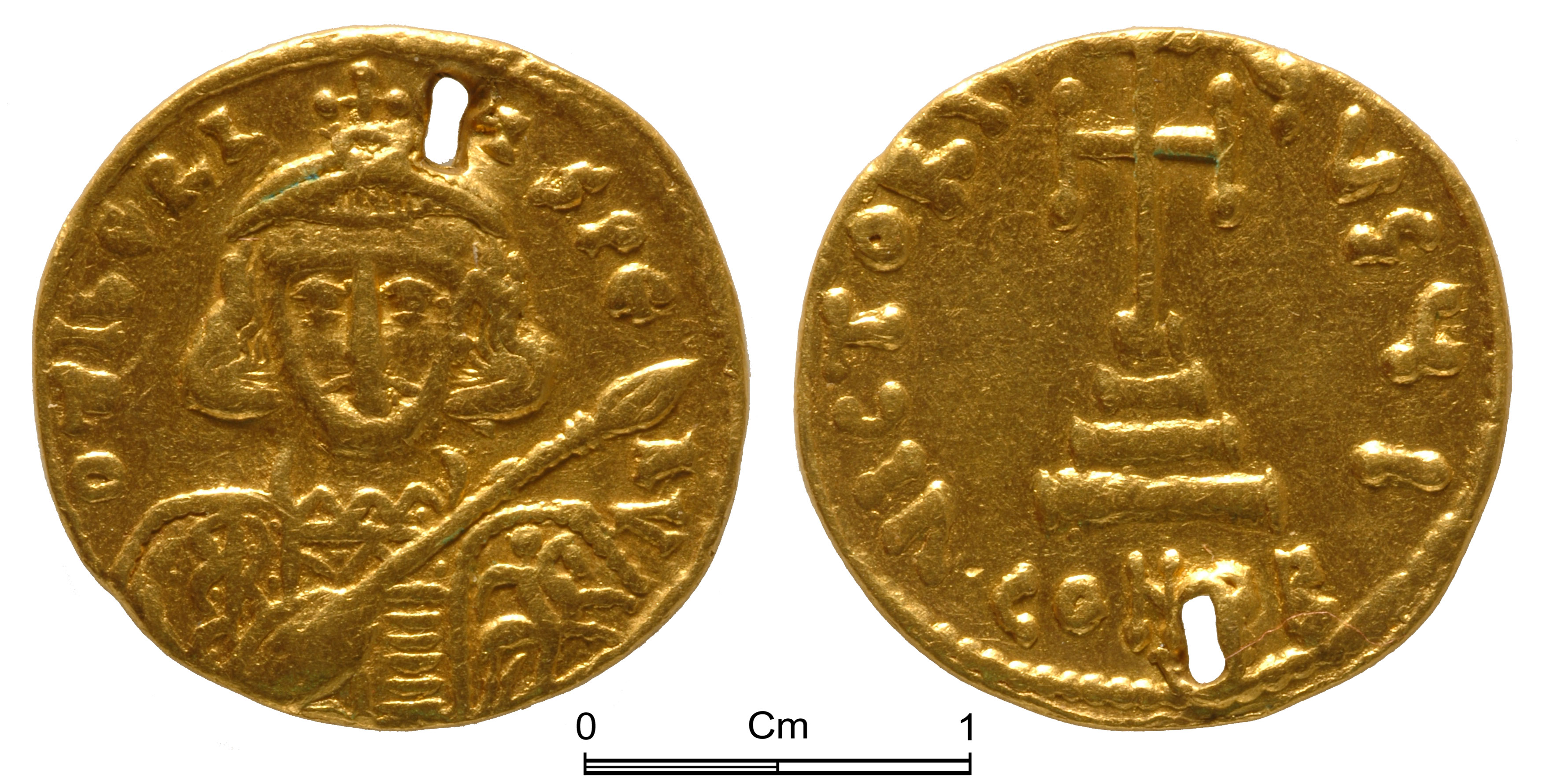 Byzantine Empire gold coin Tiberius III (Apsimar) (AD698-705) solidus, Constantinople D Tiberi-vspe-Av VICTORIAE-AVGG I (official 10) //CONOB Pierced at top.